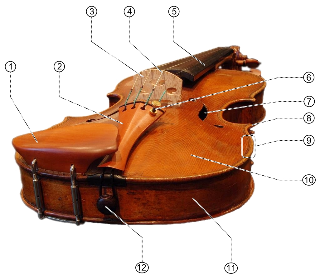 Violin made in about 1770. Legend added by SuperManu. Chinrest Tailpiece Bridge Strings Fingerboard Fine-Tuner Sound hole Corner Purfling Body Rib End Button